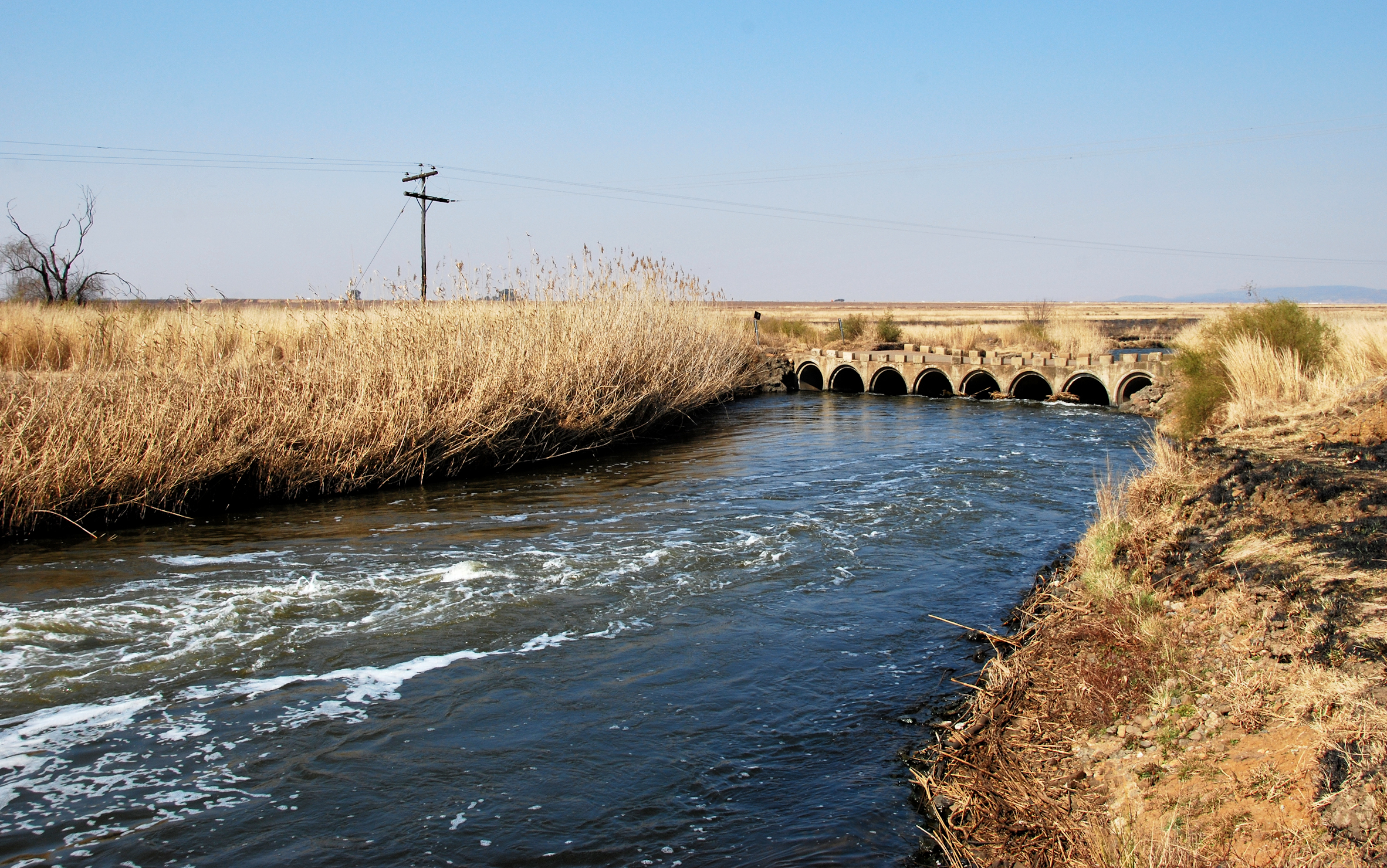 Bridge over the Klip River near Eikenhof, Gauteng, South Africa